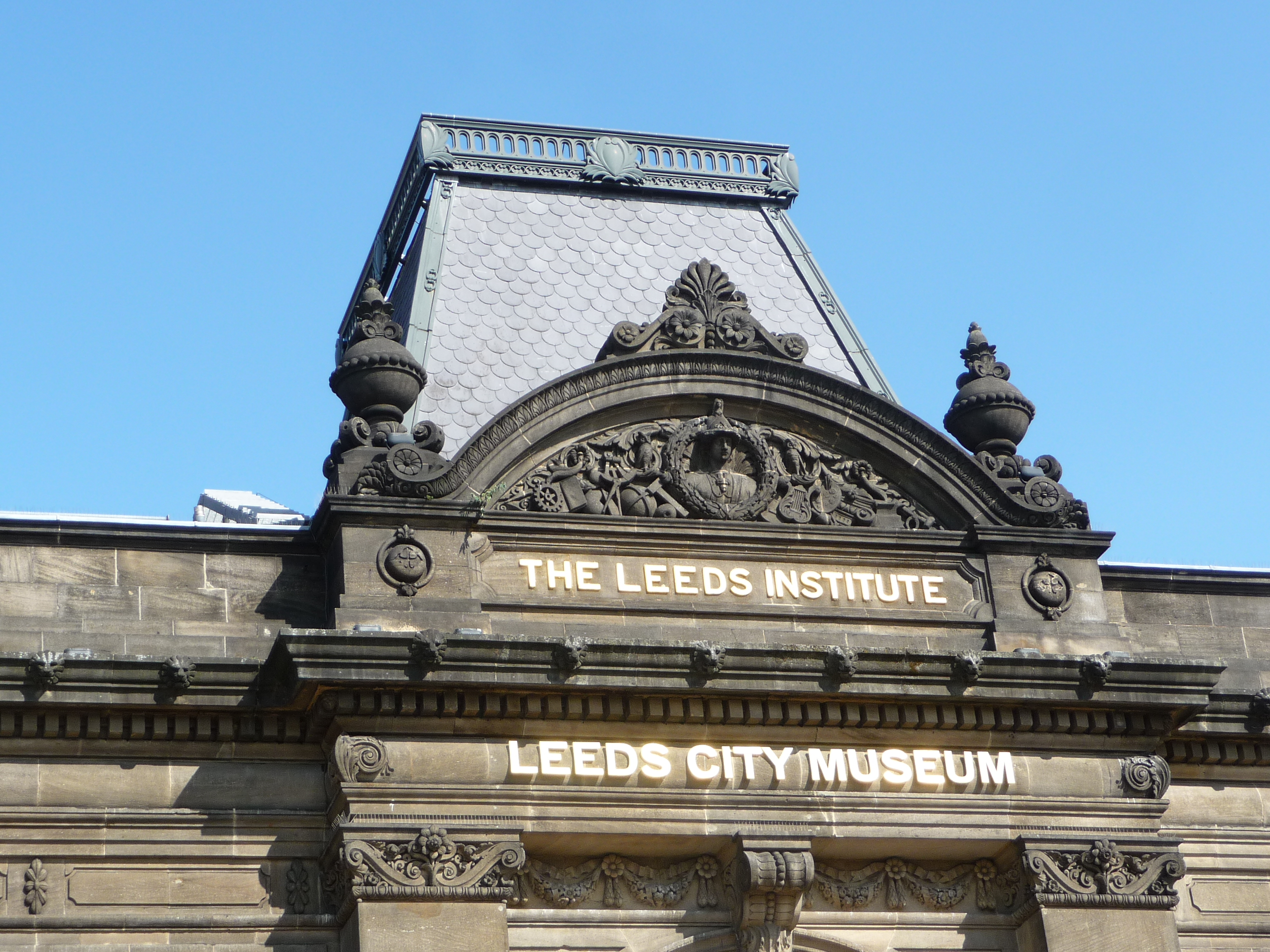 Leeds City Museum is housed in the former Mechanics' Institute built by Cuthbert Brodrick, in Cookridge Street (now Millennium Square). Admission to the museum is free of charge.